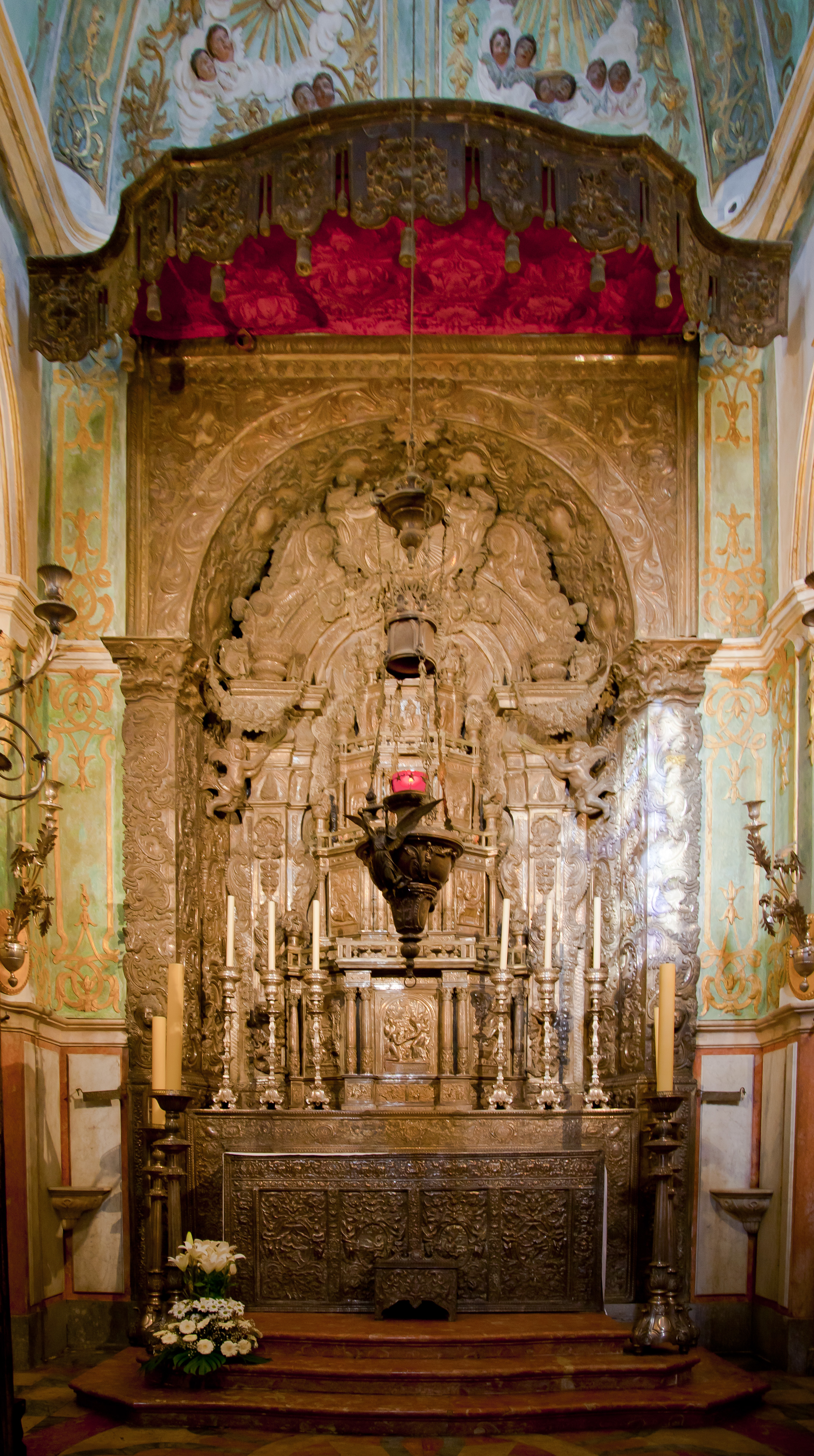 Cathedral of Porto, Portugal